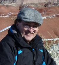 Image of Fulvio Melia at the Painted Desert in Arizona.